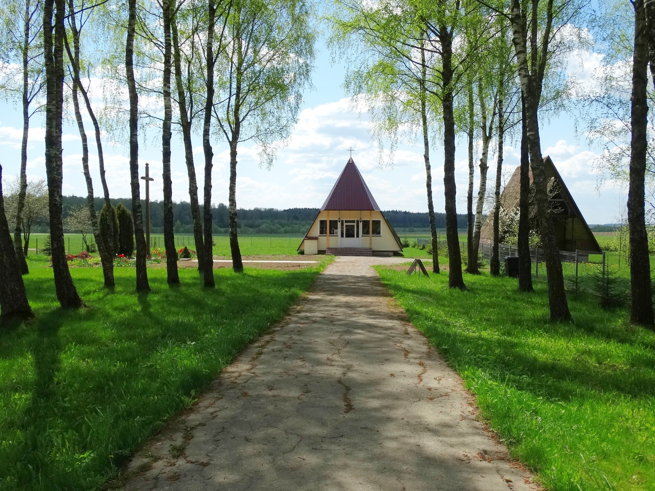 Chapel, Dainava, Šalčininkai District, Lithuania